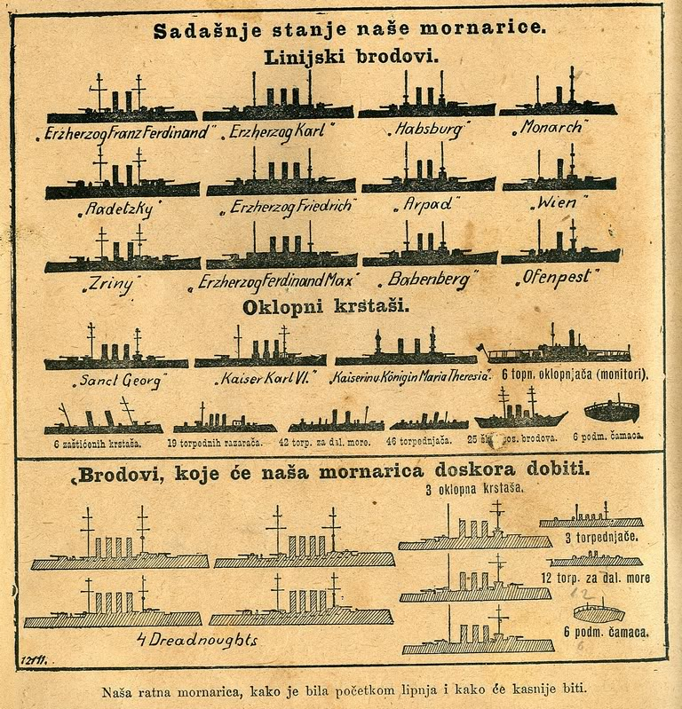 Plans of austro-hungarian navy in 1912